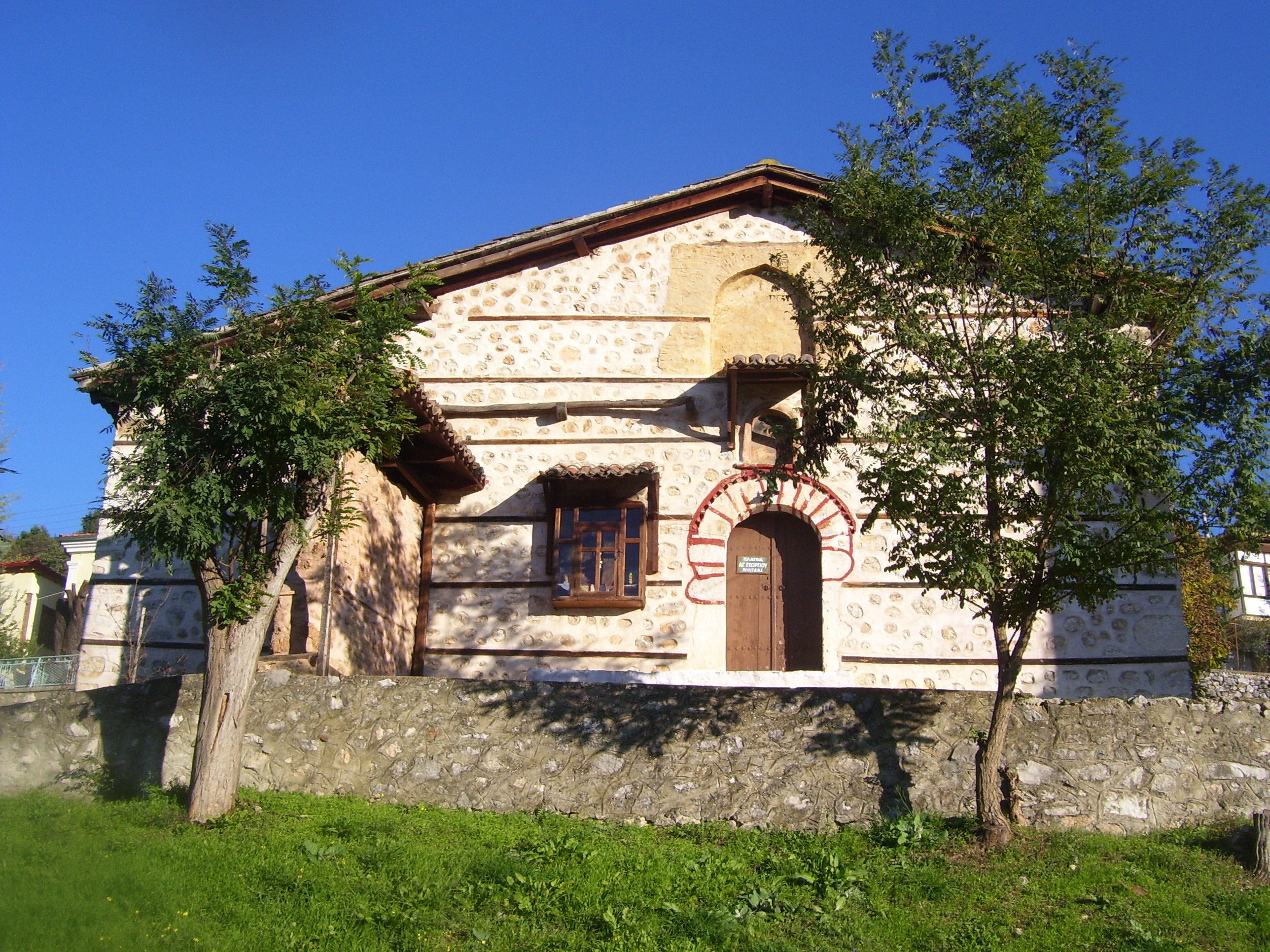 Saint George of Politeia Church